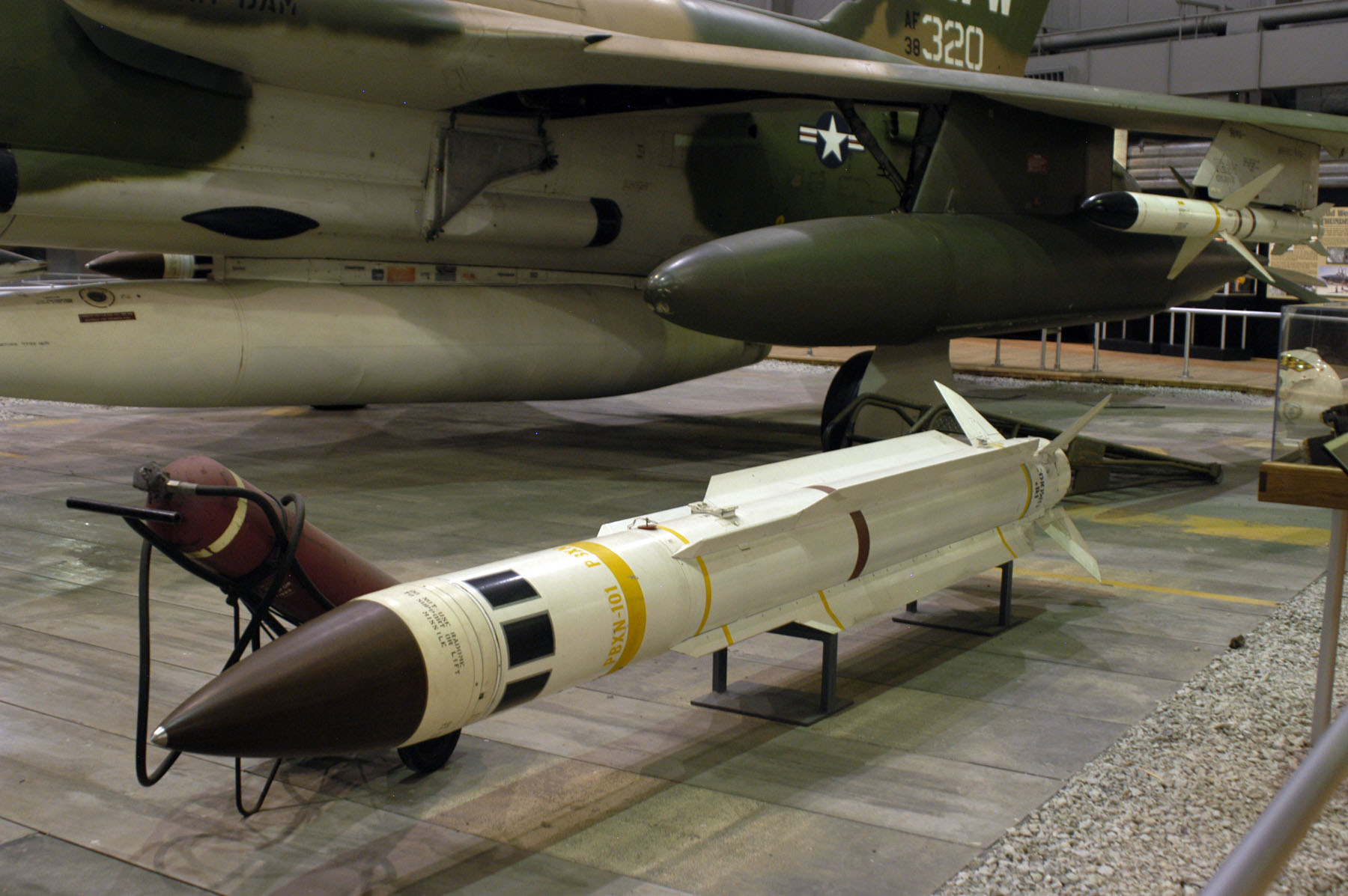 A U.S. Air Force AGM-78 Standard ARM (Antiradiation Missile) on display in the First In, Last Out: Wild Weasels vs. SAMs in the Southeast Asia War Gallery at the National Museum of the U.S. Air Force.